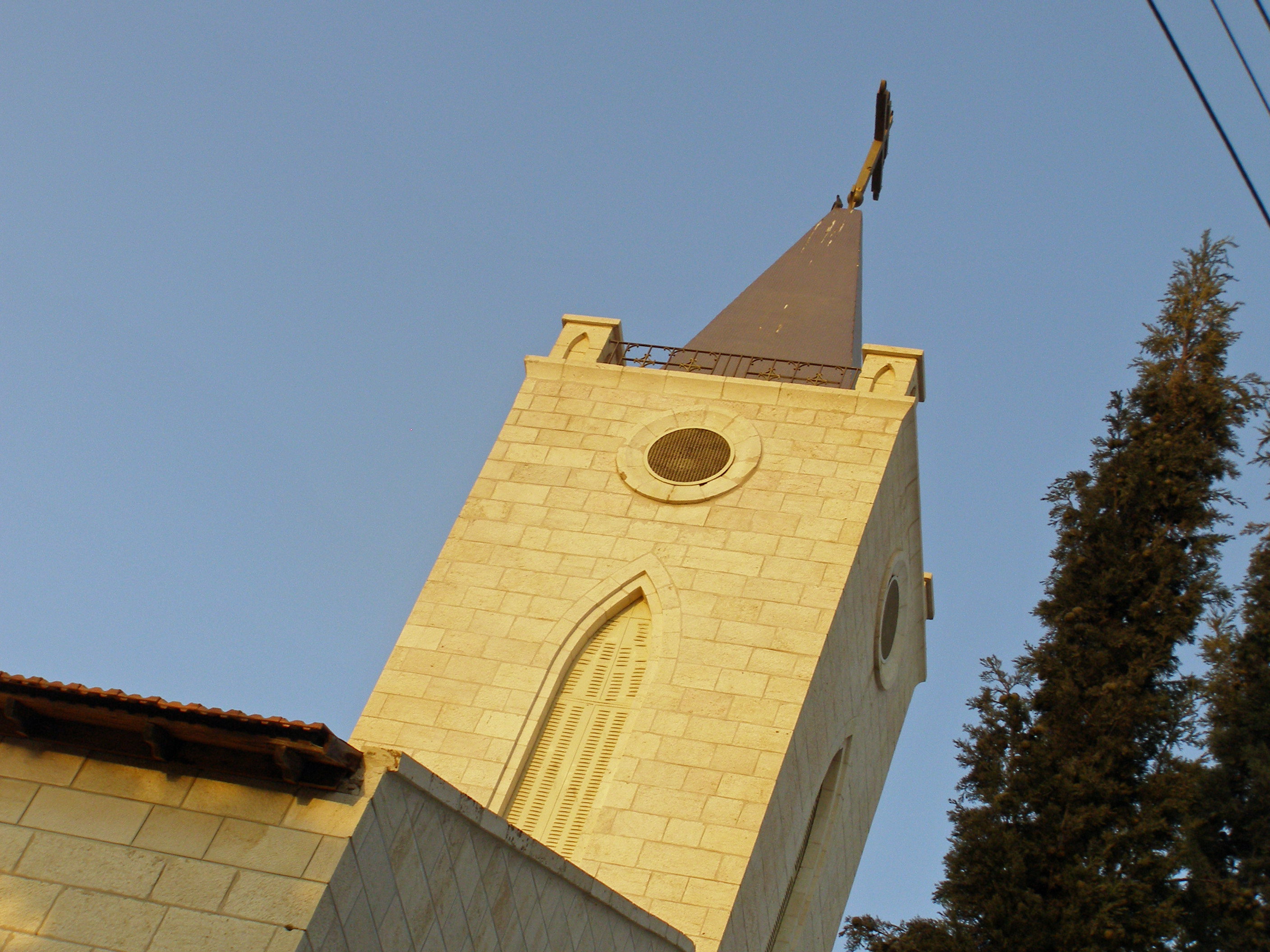 The tower of the Roman Catholic St. Joseph Church in Jabal Amman, Amman, the capital of Jordan. Taken July 2007